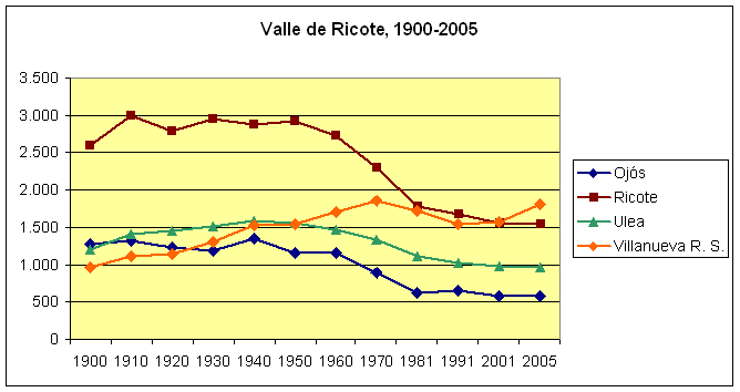 The modern Valle de Ricote region's population, Murcia, Spain, (1900-2005). Ojós, Ricote, Ulea, and Villanueva del Río Segura. Own work, given to PD. Source: Instituto Nacional de Estadística.